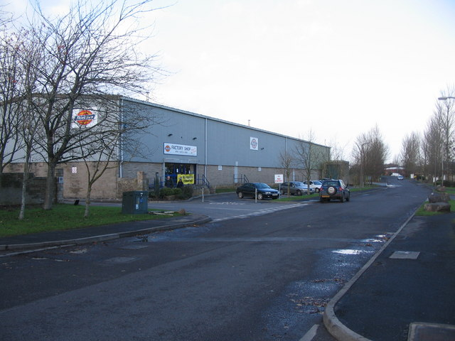 Westfield Industrial Estate A view looking north towards one of the factory units on Westfield Industrial Estate.